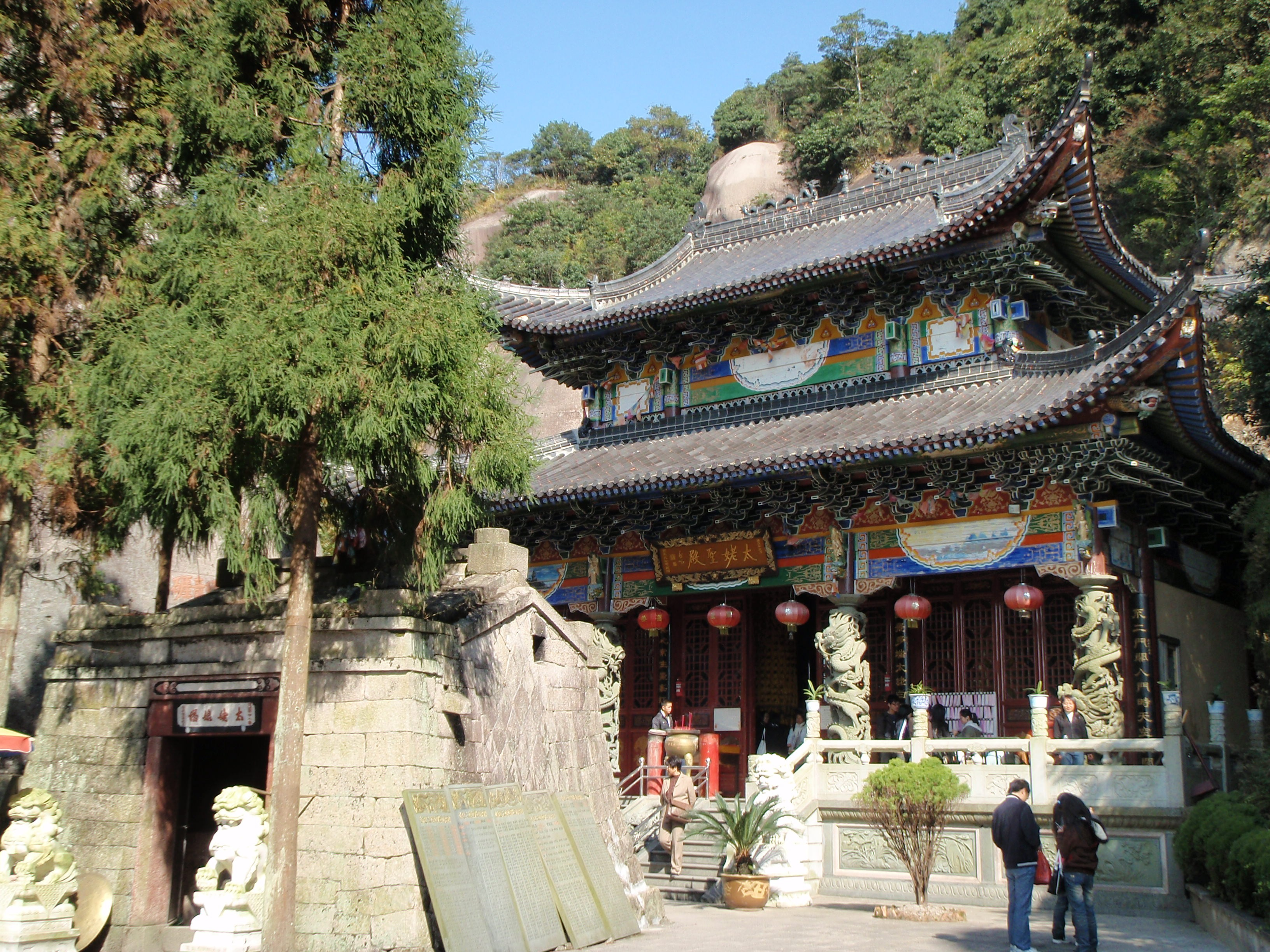 太姥圣殿 Tài lǎo shèng diàn = "Holy Temple of the Highest Mistress / Lady / Goddess". Ancient small pavillion on the front with a modern larger pavillion on the back.